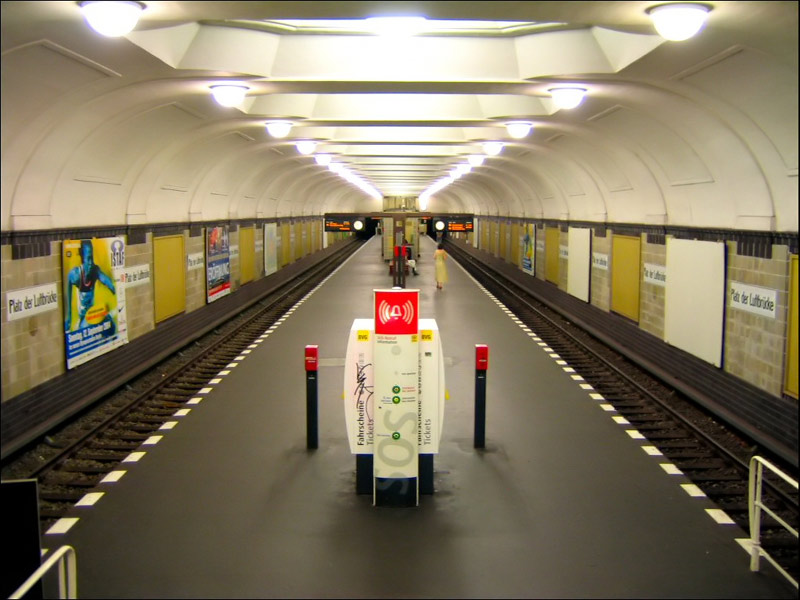 Platform of Platz der Luftbrücke station, Berlin U-Bahn